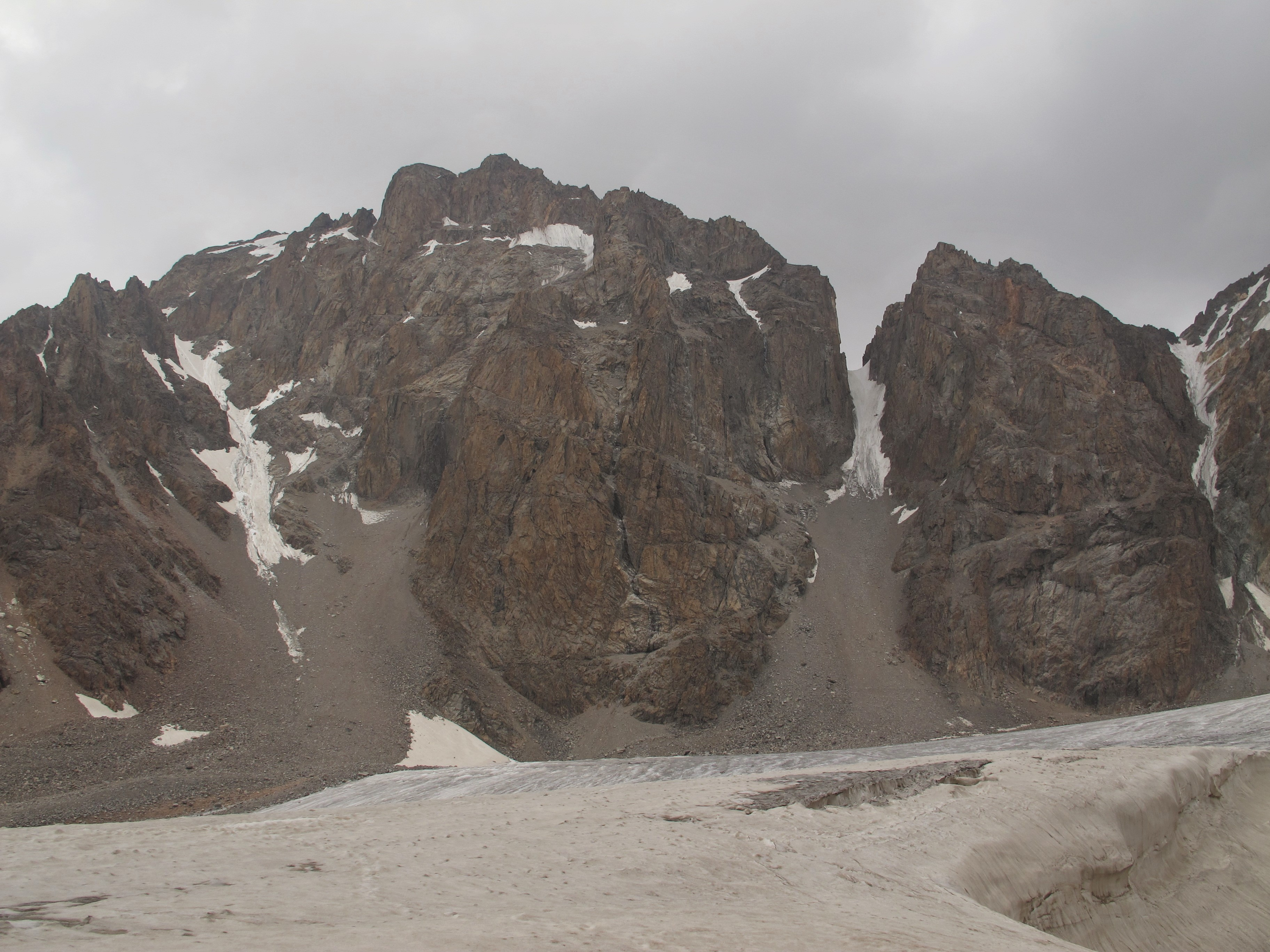 South face of Free Korea peak (4777 m) from Top-Karagay glacier